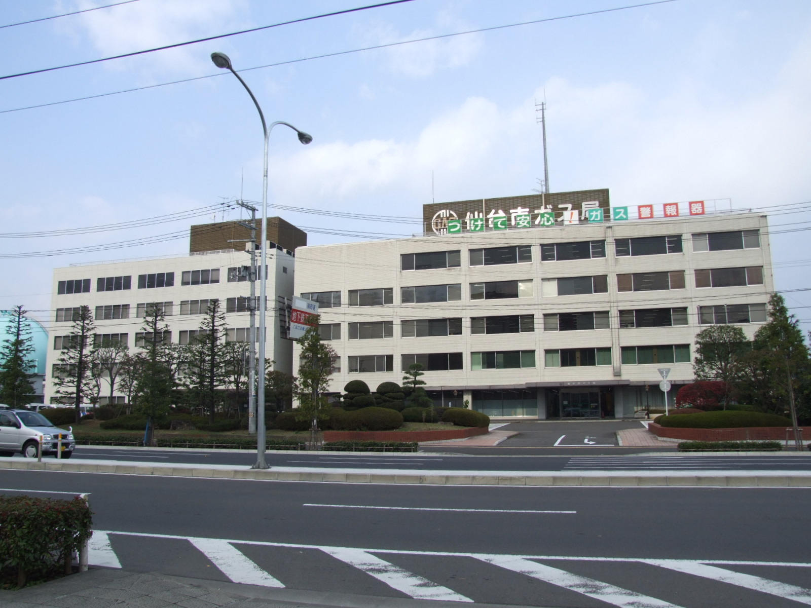 Gas Bureau of Sendai City. Seddai, Miyagi prefecture, Japan.